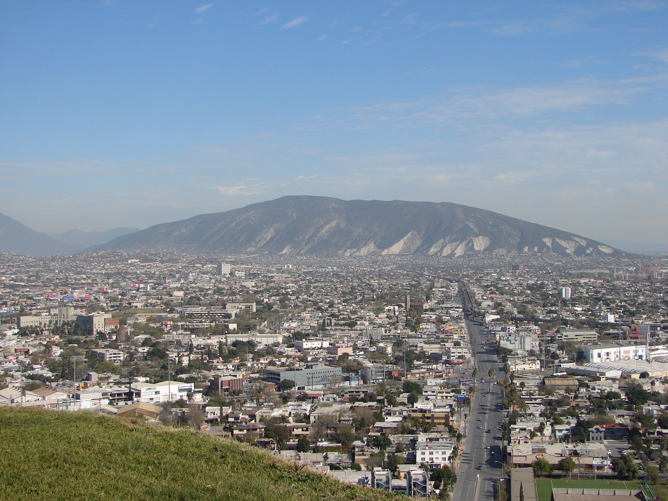 Cerro del Topo Chico, outskirts of Monterrey, Mexico, as seen from the Cerro del Obispado.